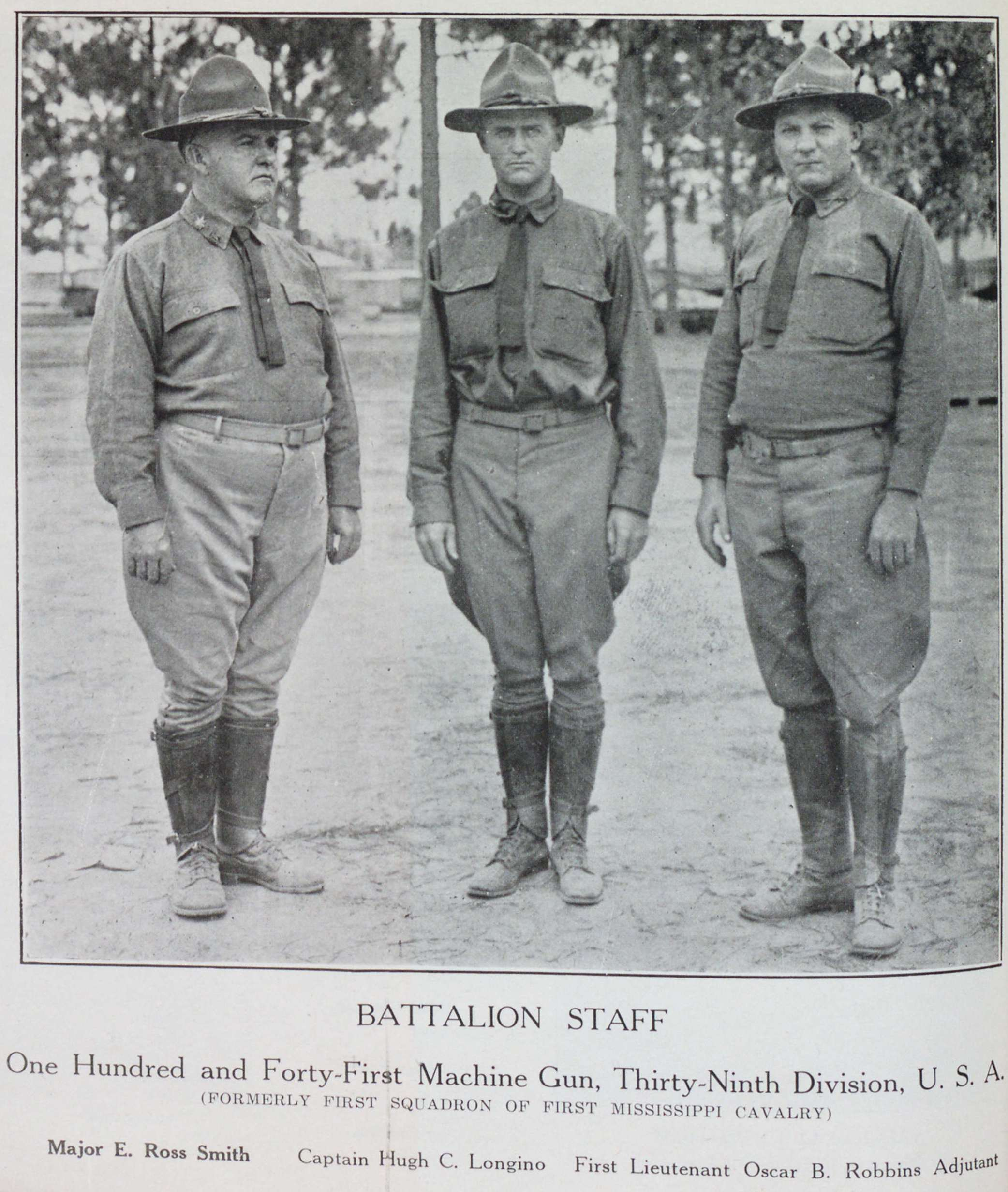 Battalion Staff of the 141st Machine Gun Battalion, Camp Beauregard, Louisiana, 1918